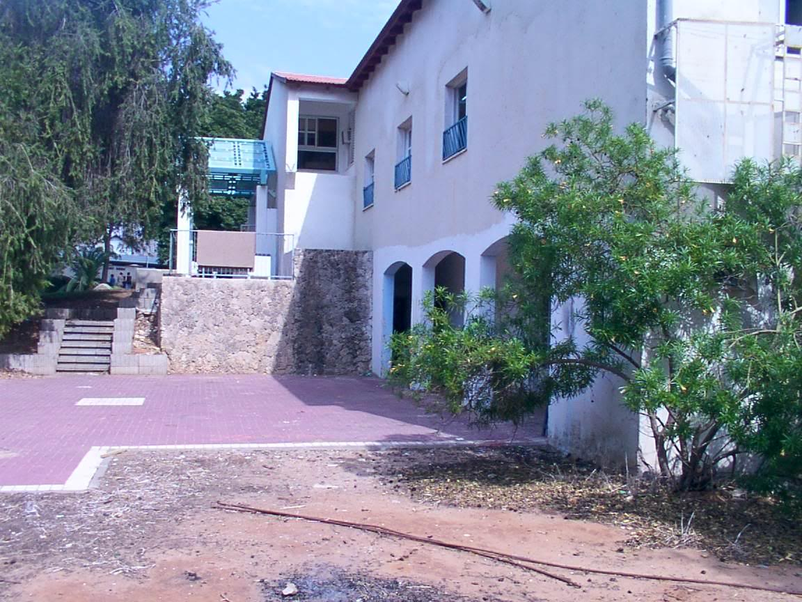 Kfar Batia beach rook